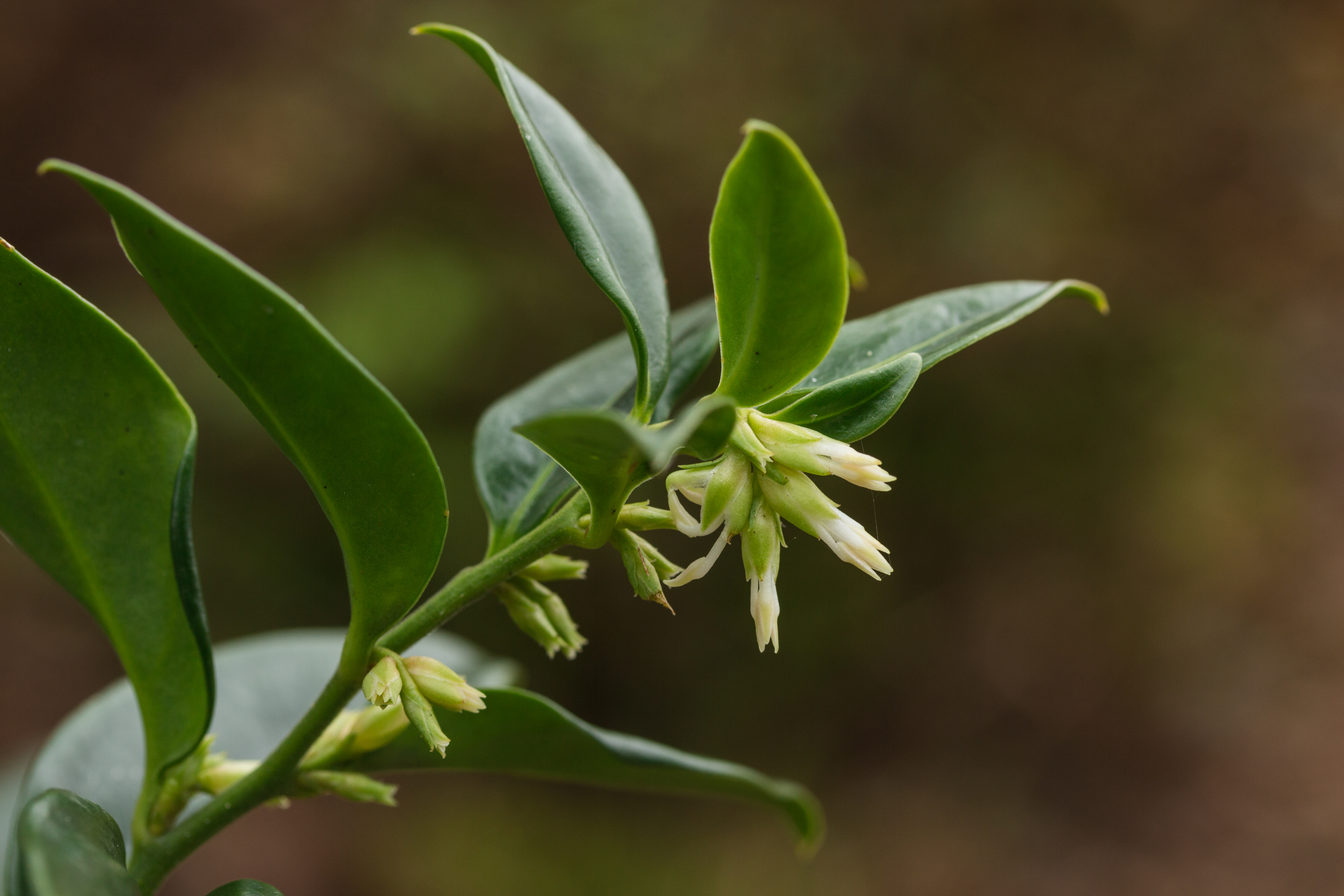 Evergreen shrub, blooms with fragrant flowers in winter.